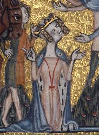 Abigail, from The Psalter of Mary de Bohun and Henry Bolingbroke, England, London or Pleshey Castle, Essex,.1380-1385, illustrated with the story of David.